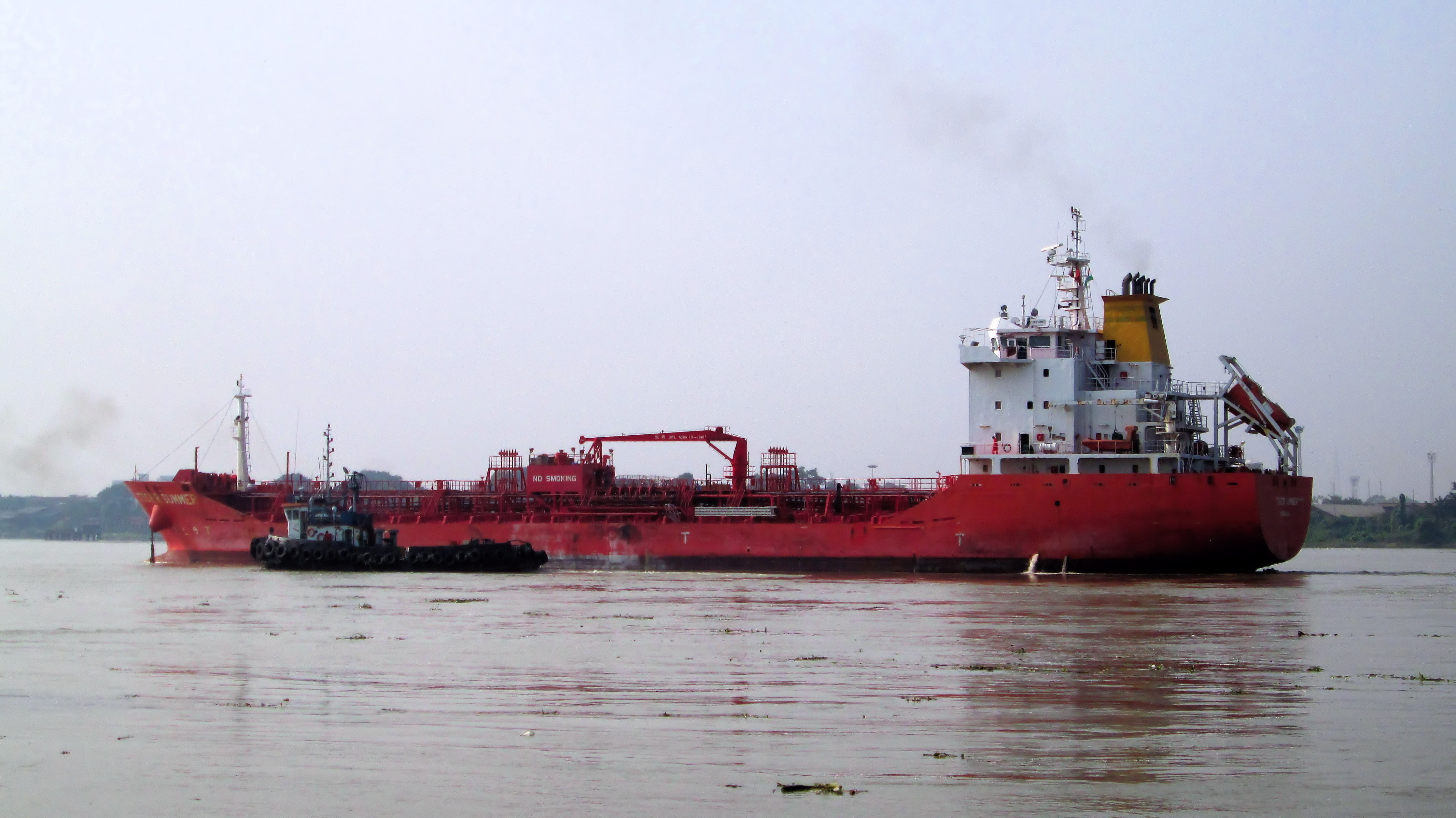 A ship in the Hoogly River at the Port of Kolkata